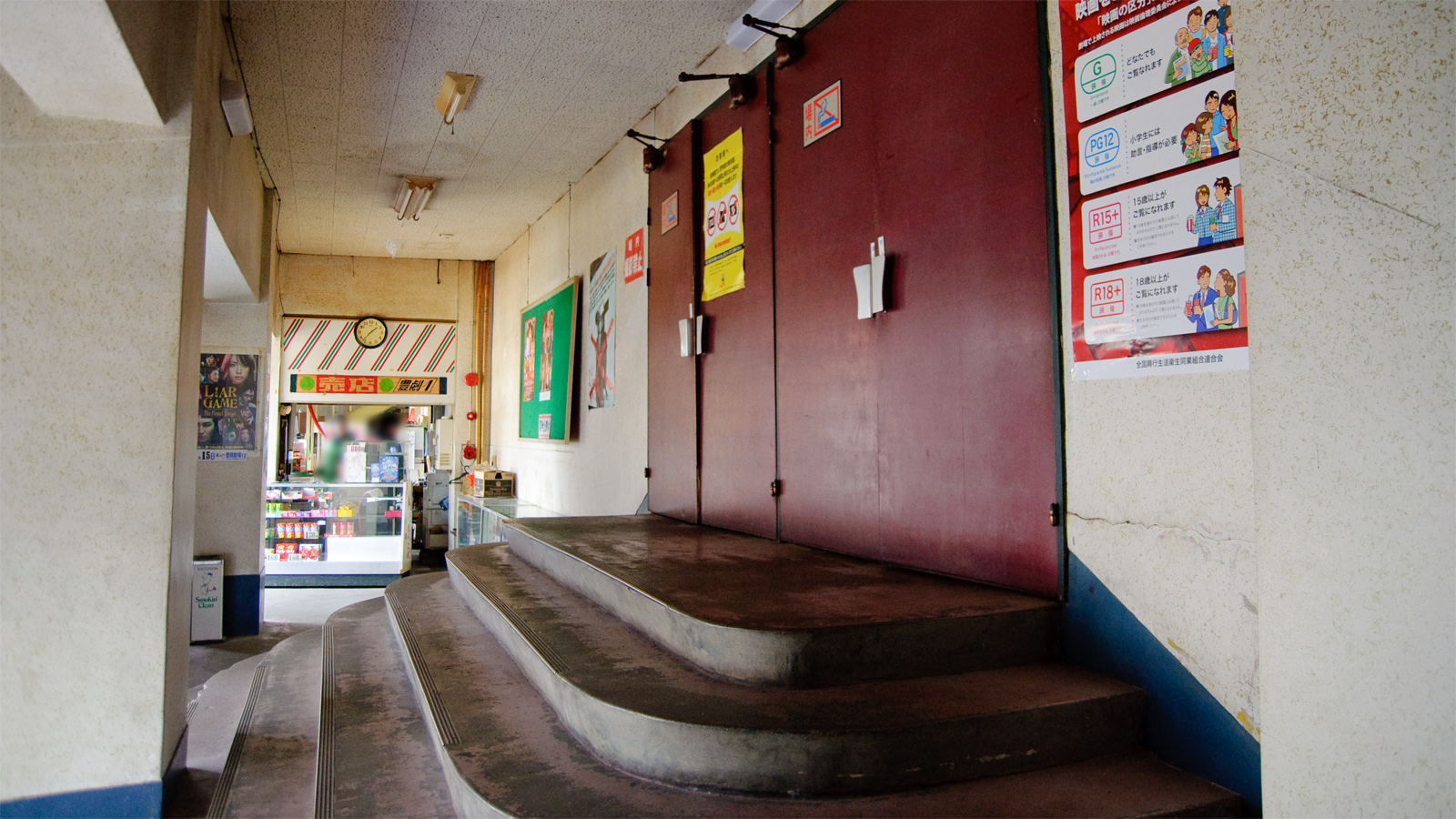 Toyogeki Movie in Toyooka, Hyogo prefecture, Japan